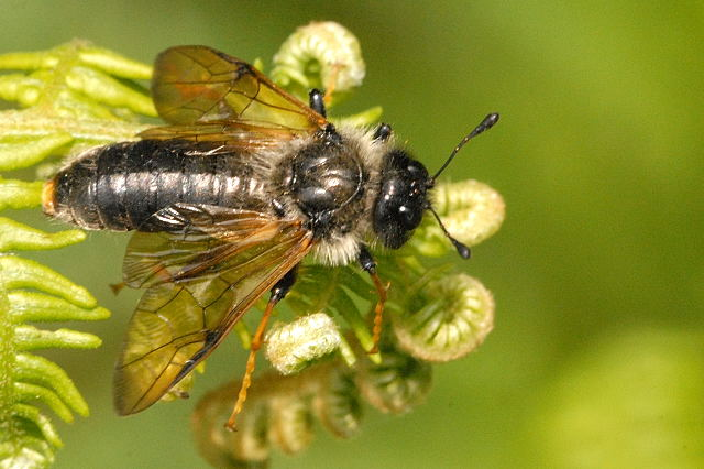 Trichiosoma lucorum from Commanster, Belgian High Ardennes .